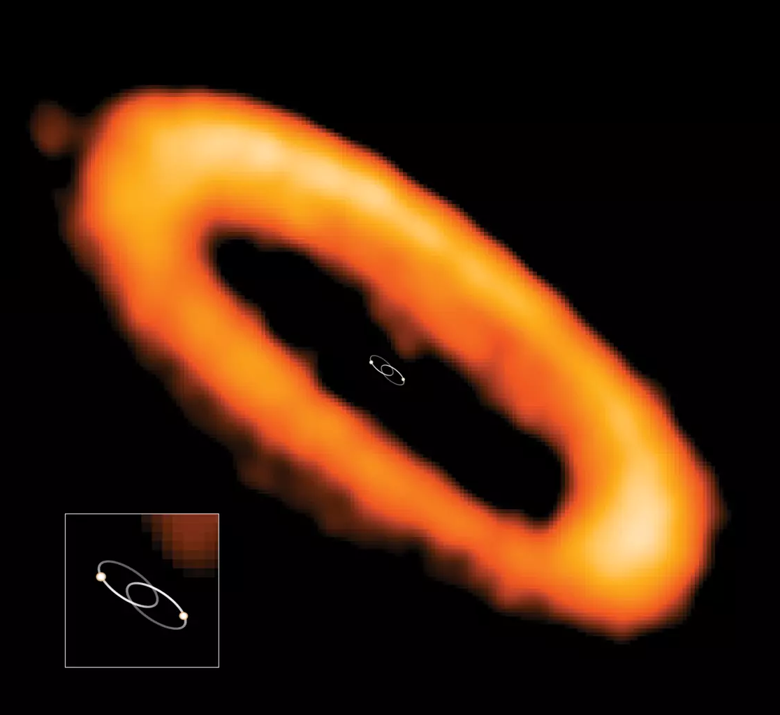 Two examples of aligned and misaligned protoplanetary disks around binary stars (circumbinary disks), observed with ALMA. Binary star orbits are added for clarity. Left: in star system HD 98800 B, the disk is misaligned with inner binary stars. The stars are orbiting each other (in this view, towards and away from us) in 315 days. Right: in star system AK Sco, the disk is in line with the orbit of its binary stars. The stars are orbiting each other in 13.6 days.This image shows the disk around AK Scorpii (image was adapted to only show one part).